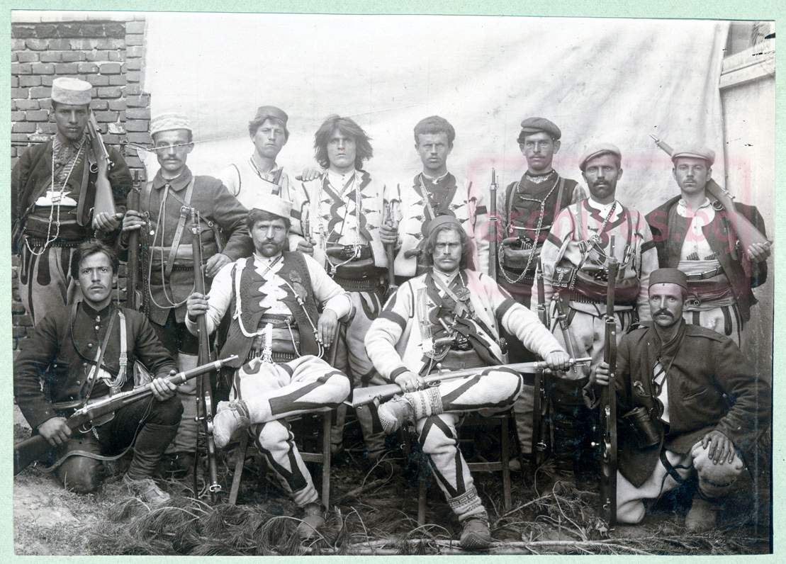 Blazhe Krastev's and Georgi Ralev's IMARO band.